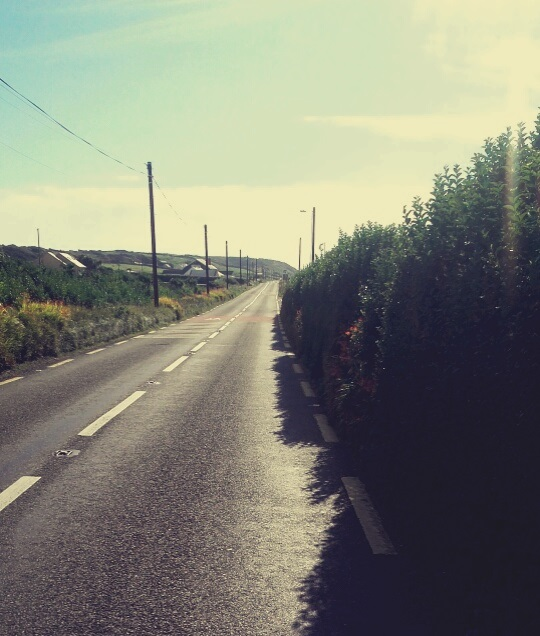 View of the road in Rineen.